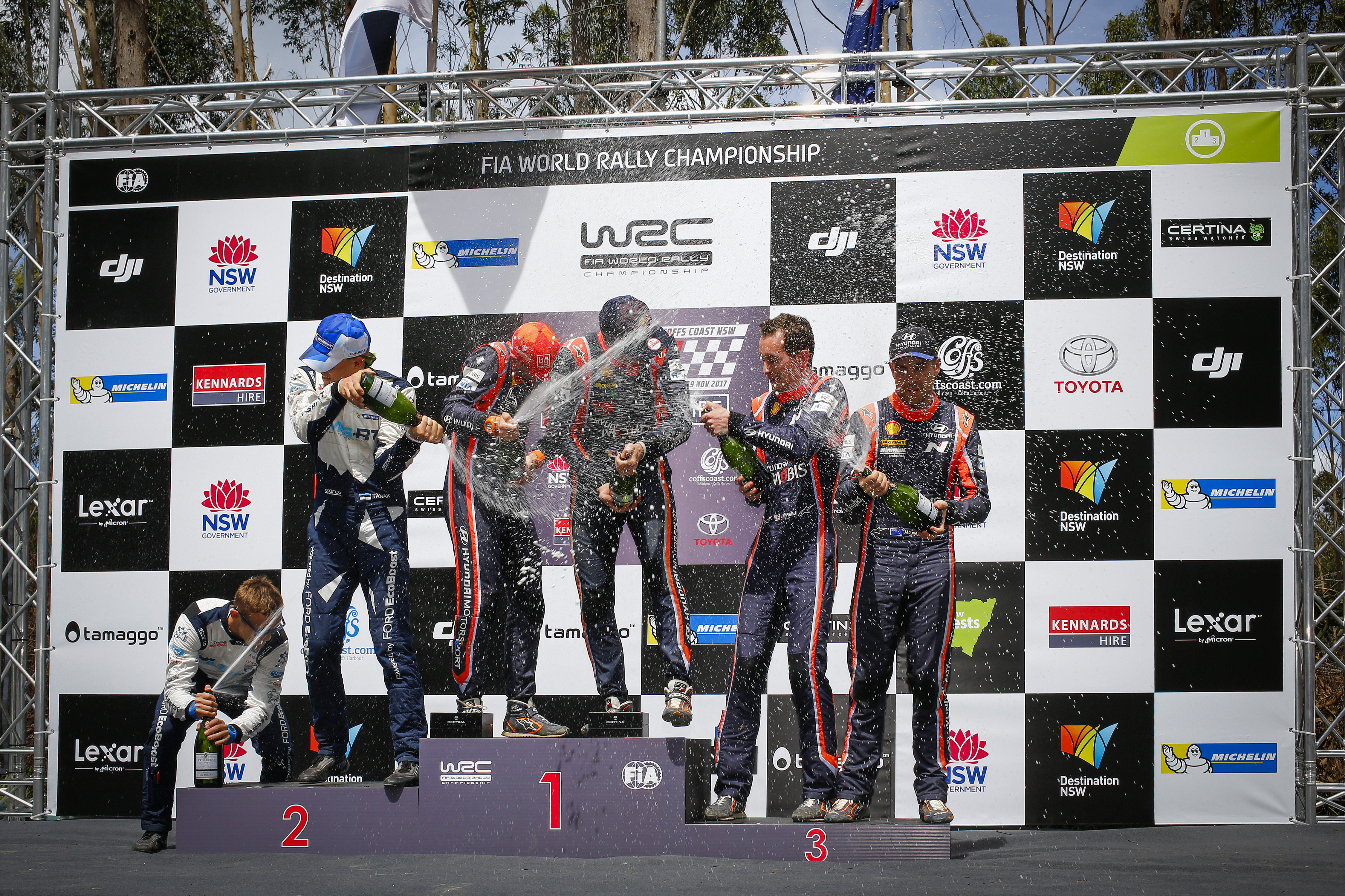 2017 FIA World Rally Championship Round 13, Rally Australia 16 - 19 November 2017 Thierry Neuville, Nicolas Gilsoul, Hyundai i20 Coupe WRC Hayden Paddon, Seb Marshall, Hyundai i20 Coupe WRC Ott Tänak , Martin Järveoja Ford Fiesta WRC Photographer: Sarah Vessely Worldwide copyright: Hyundai Motorsport GmbH